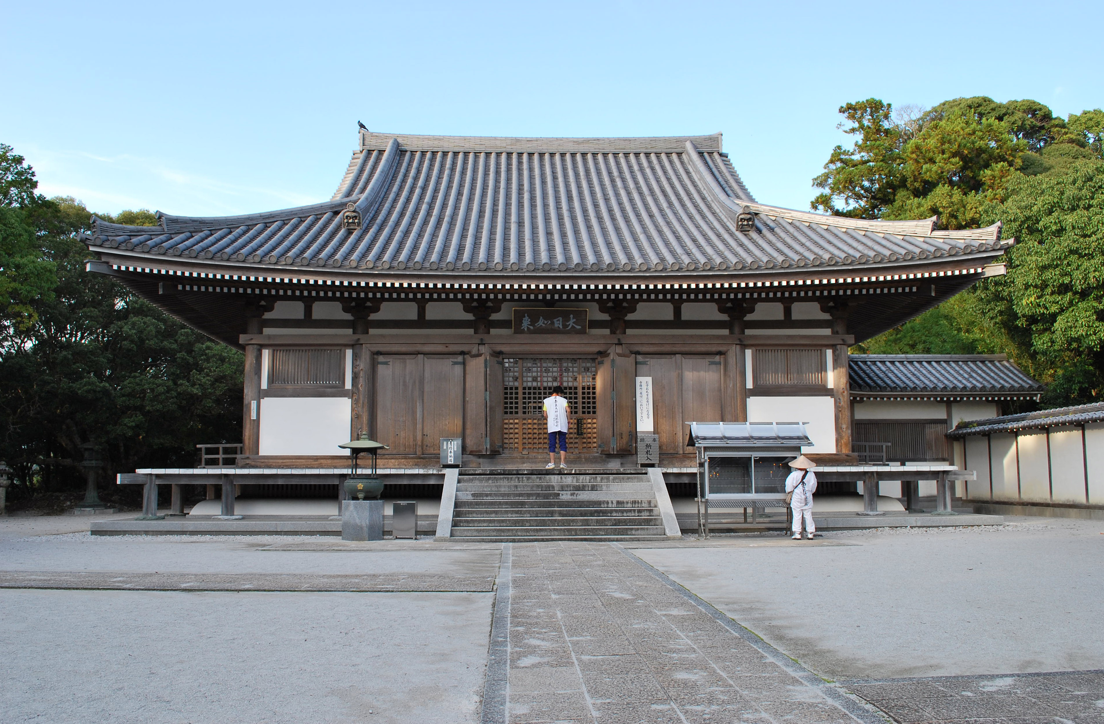 Main temple, Dainichi-ji